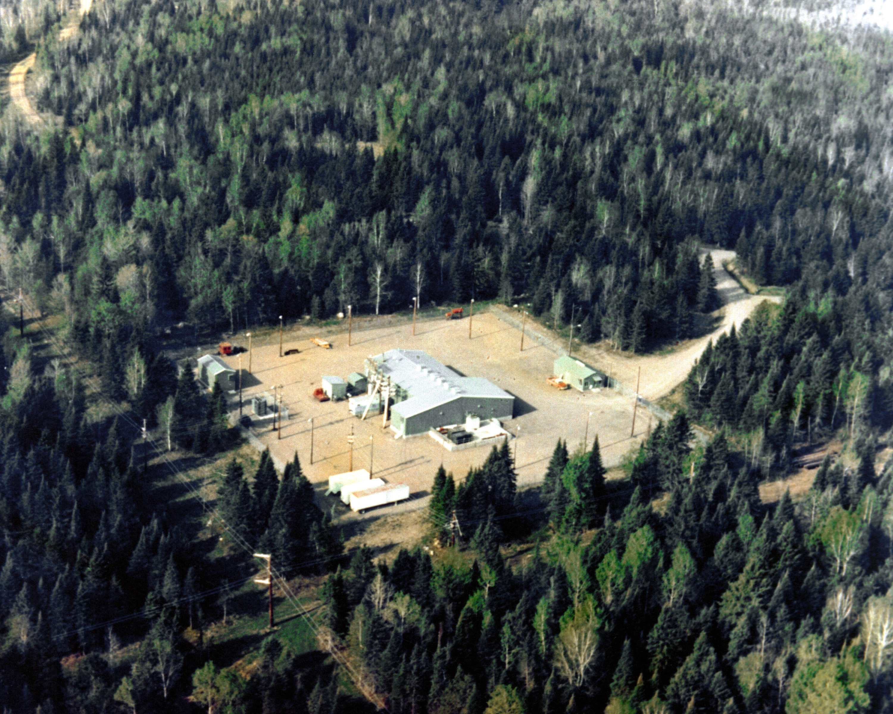 An aerial view of the U.S. Navy's Clam Lake Extremely Low Frequency (ELF) radio transmitter facility. This transmitted ELF radio signals at a frequency of 76 Hz to communicate with submerged nuclear submarines around the world. The transmitter powered two perpendicular "ground dipole" antennas each consisting of a 14 mile transmission line grounded at each end. Sections of the transmission lines can be seen passing through the forest at lower left. The transmission lines were driven with a current of about 300 amps, which flowed deep in the ground between the ends of the lines, in a huge loop. The input power to the antennas was about 1 megawatt, and they radiated about 2 watts of ELF radiation. The Clam Lake facility became operational in 1985 and was shut down in 2004. This photo was taken in 1982 before it became operational, when it was known as the Wisconsin Test Facility. Location: Clam Lake, Wisconsin (WI) UNITED STATES OF AMERICA (USA)